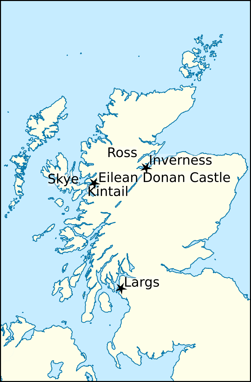 Map showing various places mentioned in the Wikipedia article Kermac Macmaghan.